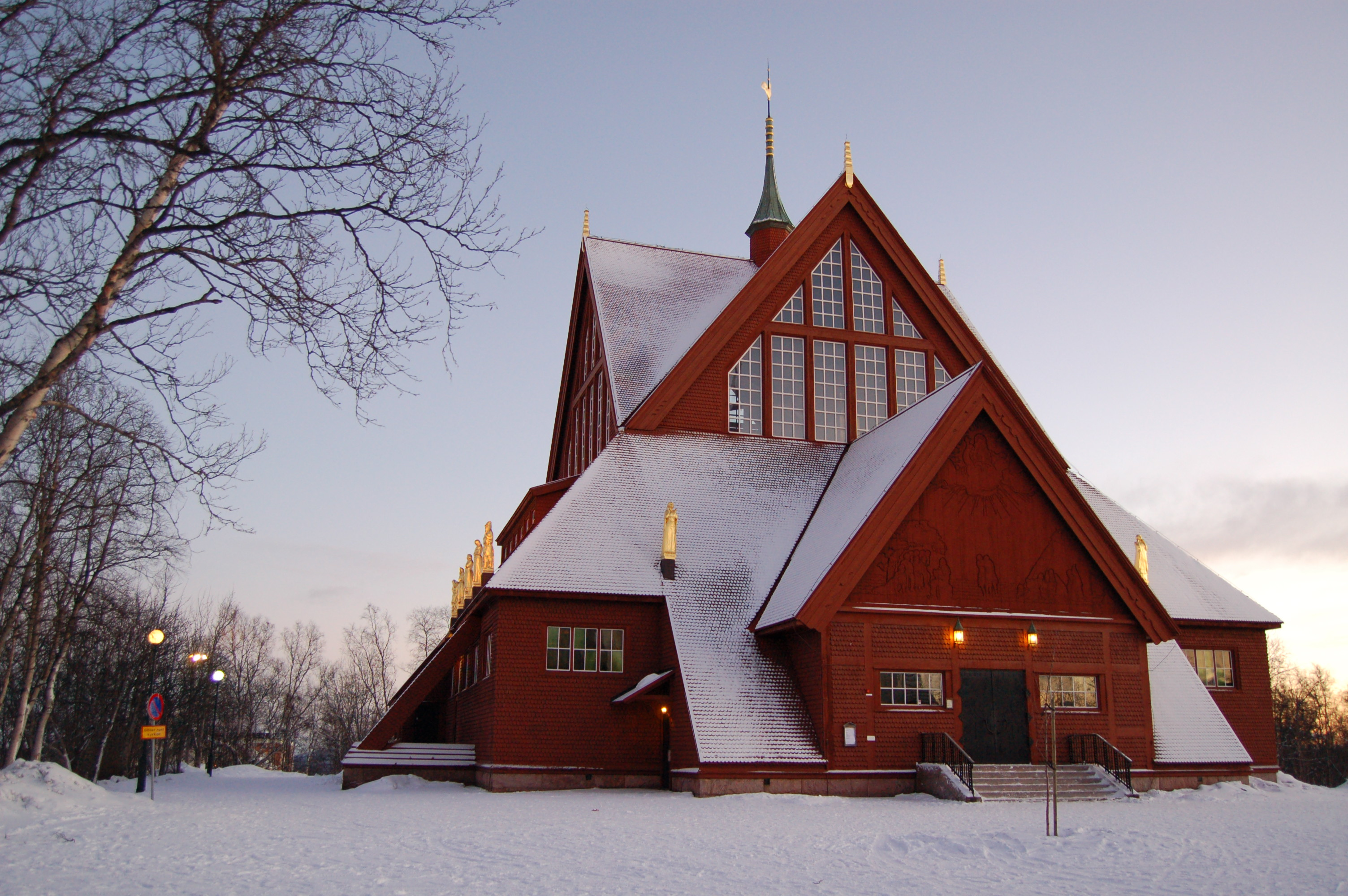 Kiruna church